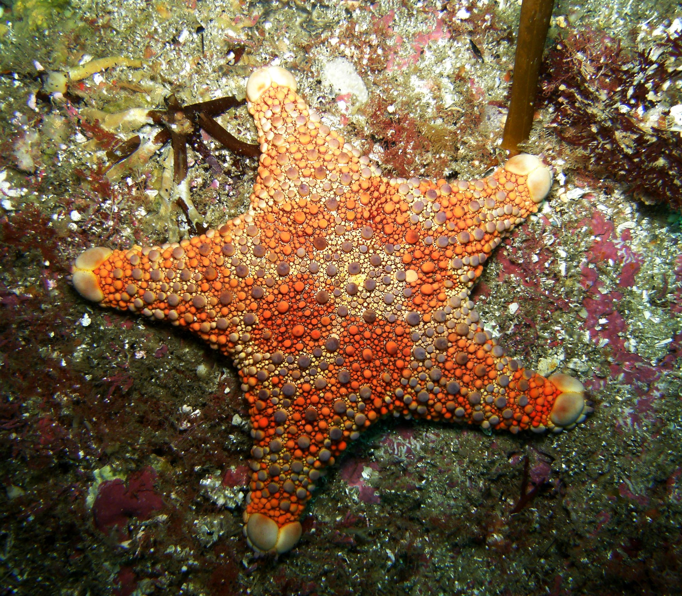 This is the best pic of this Asterodiscides truncatus that I could get, even though I took a lot. I was hoping to get a clearer one...but...next time!